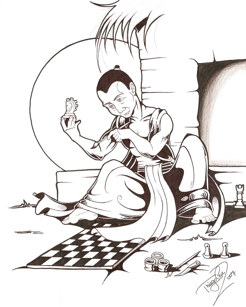 Brahmin Lahur Sessa (or Sissa) creating Chaturanga.